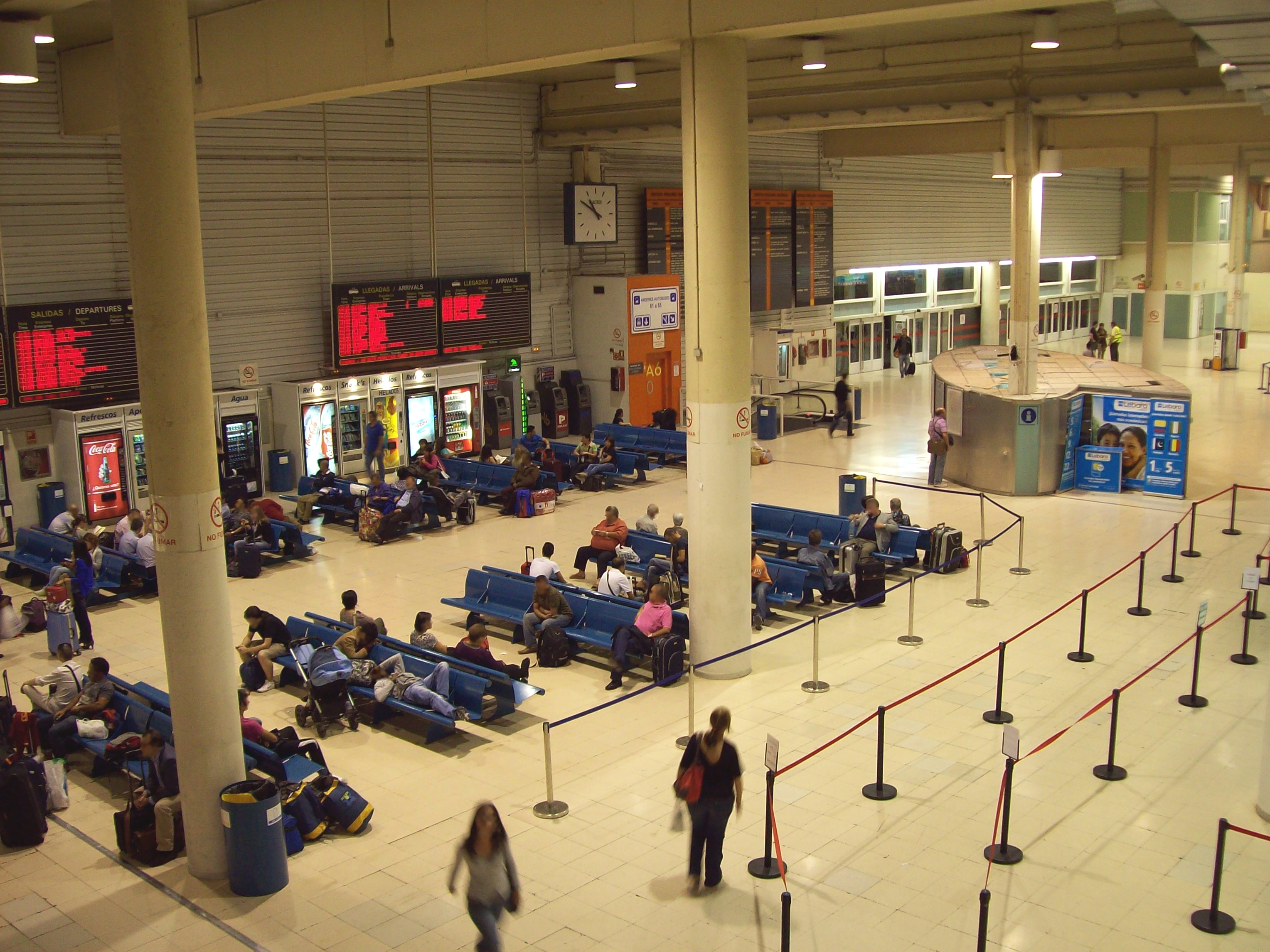 Interior of Méndez Álvaro Station in Madrid (Spain).